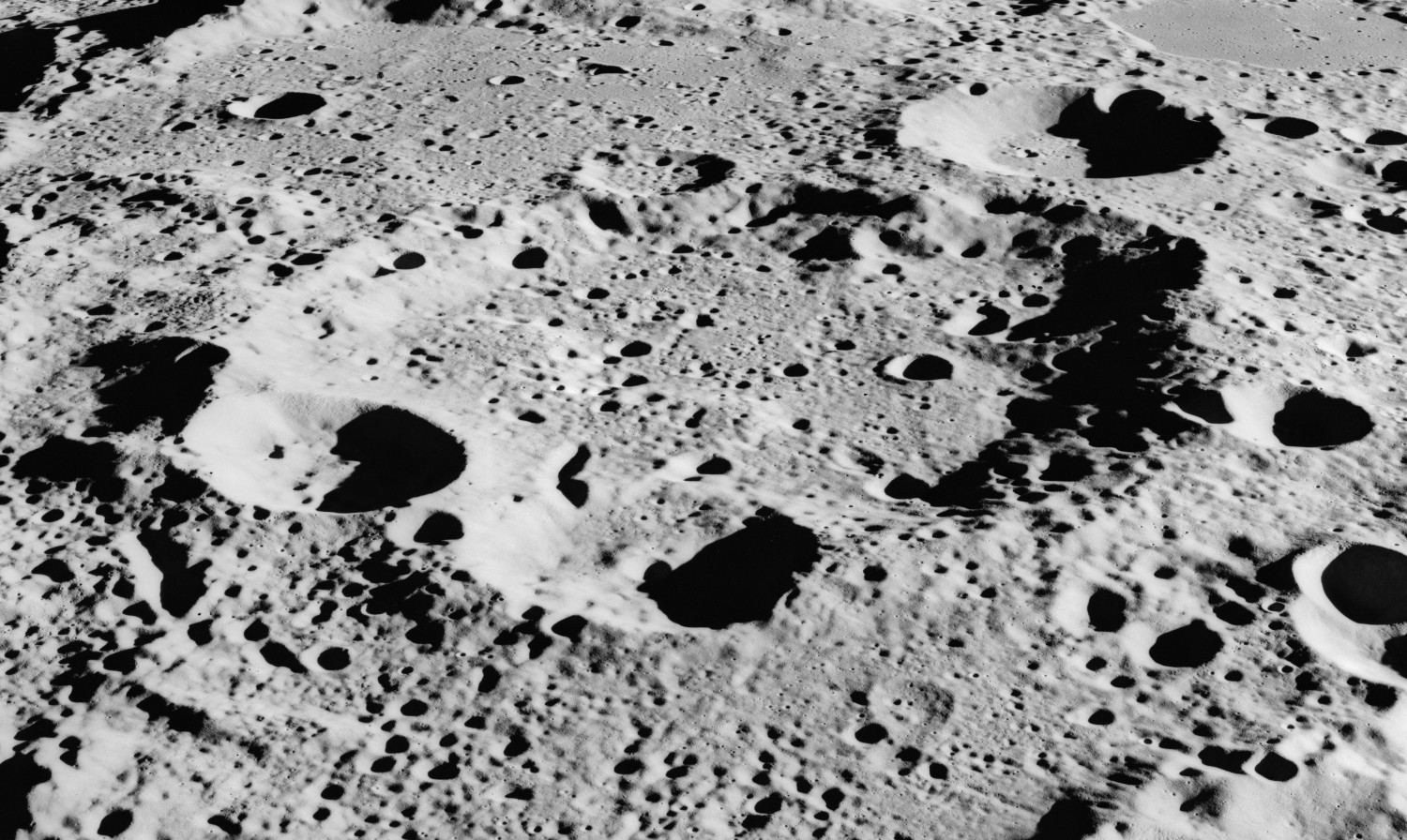 Oblique view of Parkhurst crater, on the moon, facing south